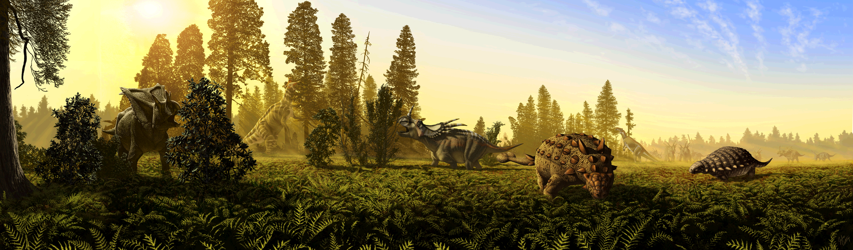 Depiction of dietary niche partitioning among megaherbivorous dinosaurs from the DPF (MAZ-2). Left to right: Chasmosaurus belli, Lambeosaurus lambei, Styracosaurus albertensis, Scolosaurus cutleri (formerly sunk in Euoplocephalus tutus), Prosaurolophus maximus, Panoplosaurus mirus. A herd of S. albertensis looms in the background.